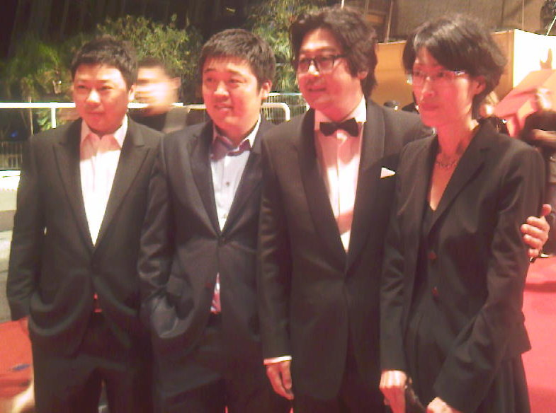 "The Chaser" movie director Na Hong-Jin and its team.